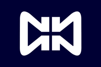 Flag of Nakajima Fukushima